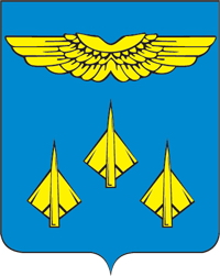 Zhukovsky coat of arms Date of adoption: April 25, 2002 Russian Heraldic Register no. 959 Textual description: "On a sky-blue (azure) field there are three wide arrow-heads in a triangle (two and one in a form of a plane). Above them there're two wings. All figures in gold".